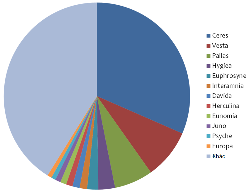 Pie chart of the masses of the twelve most-massive asteroids per Baer (2010), relative to the mass of the main asteroid belt (Mbelt 15.0±1.0 × 10-10 M☉ or 3.0×1021 kg).